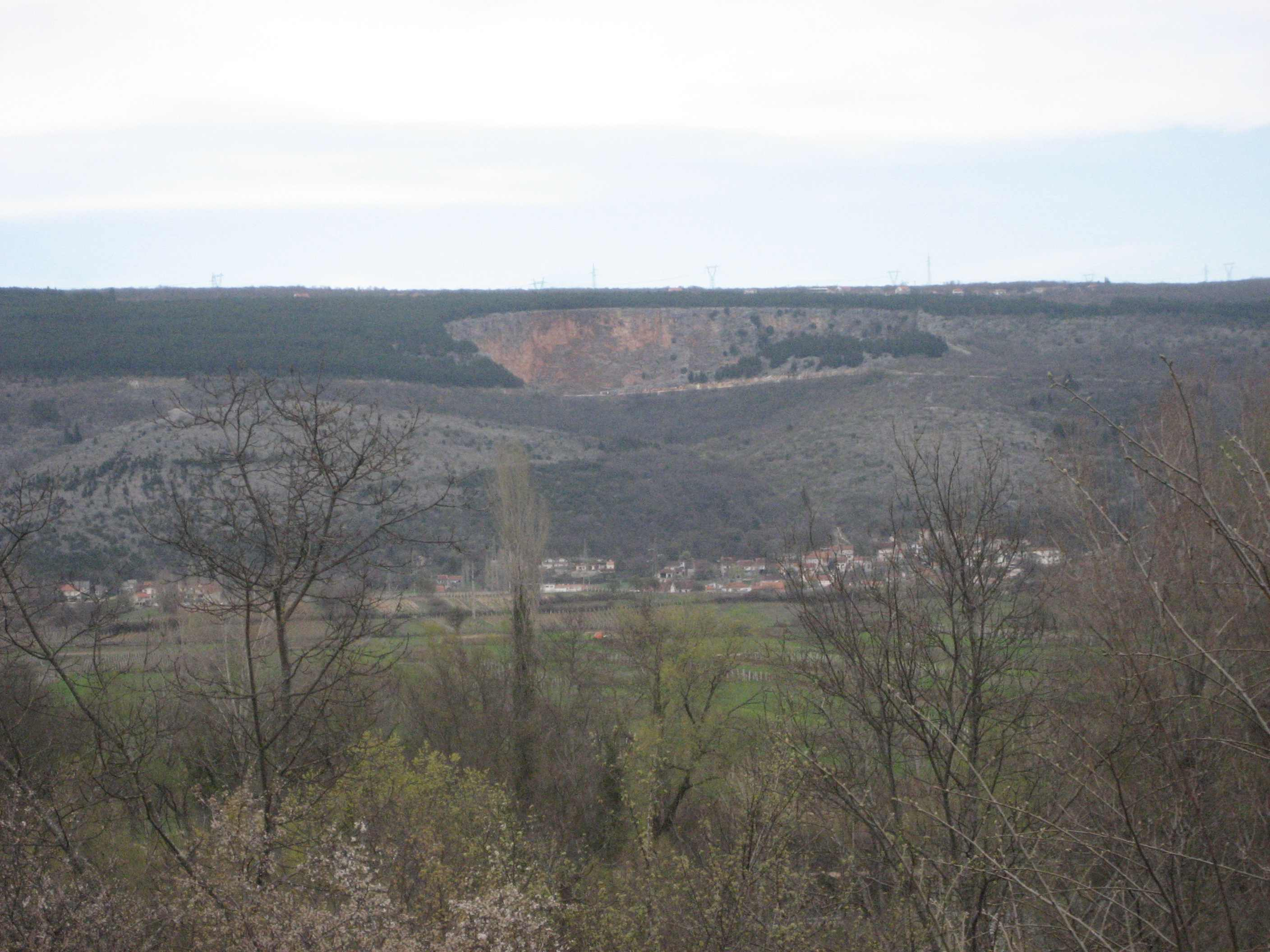 Red Lake near Imotski in Croatia, View from the distance